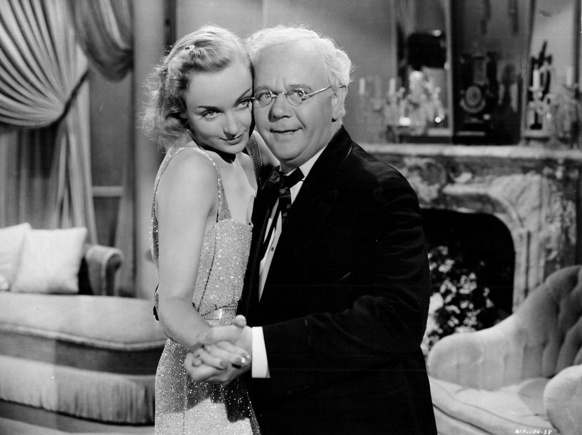 Carole Lombard & Charles Winninger in 1937 screwball comedy film Nothing Sacred. See also film still. No copyright notice.